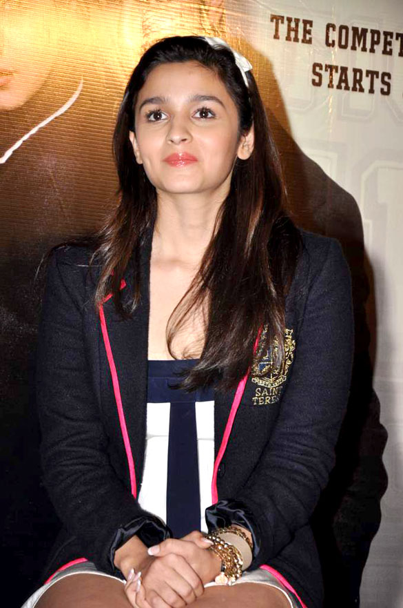 Alia Bhatt at the promo launch of 'Student of the Year